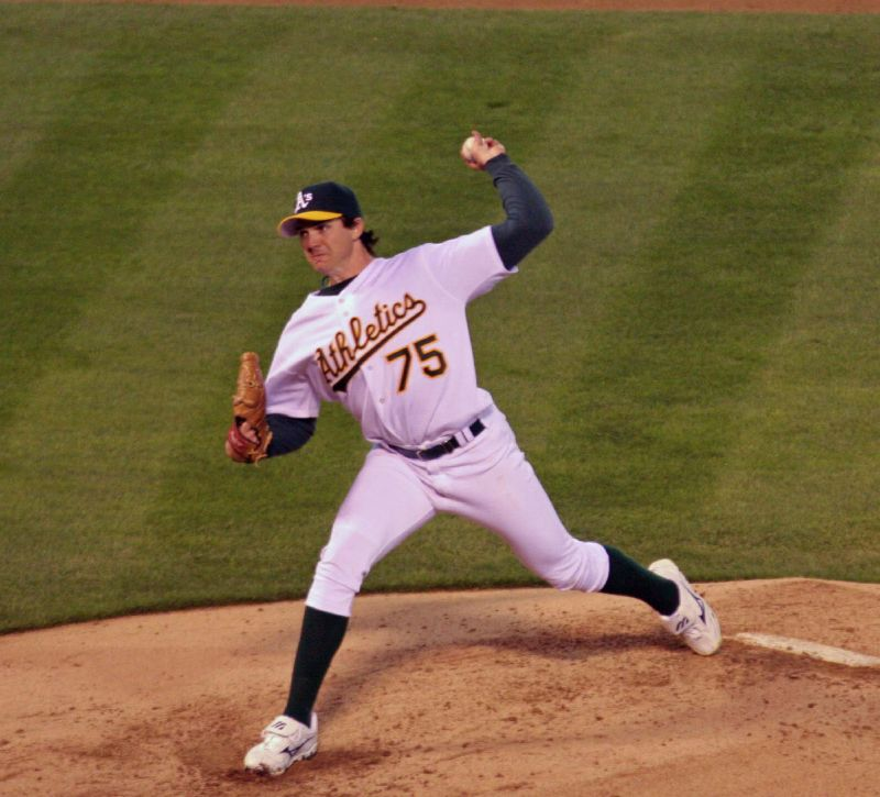 Barry Zito pitching for the Oakland Athletics